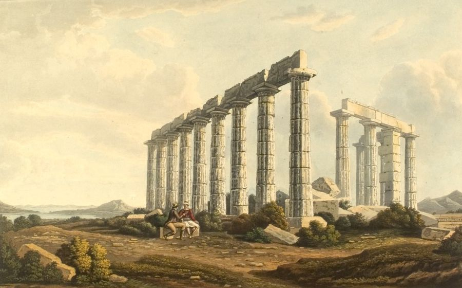 South-east View of the Temple at Sunium